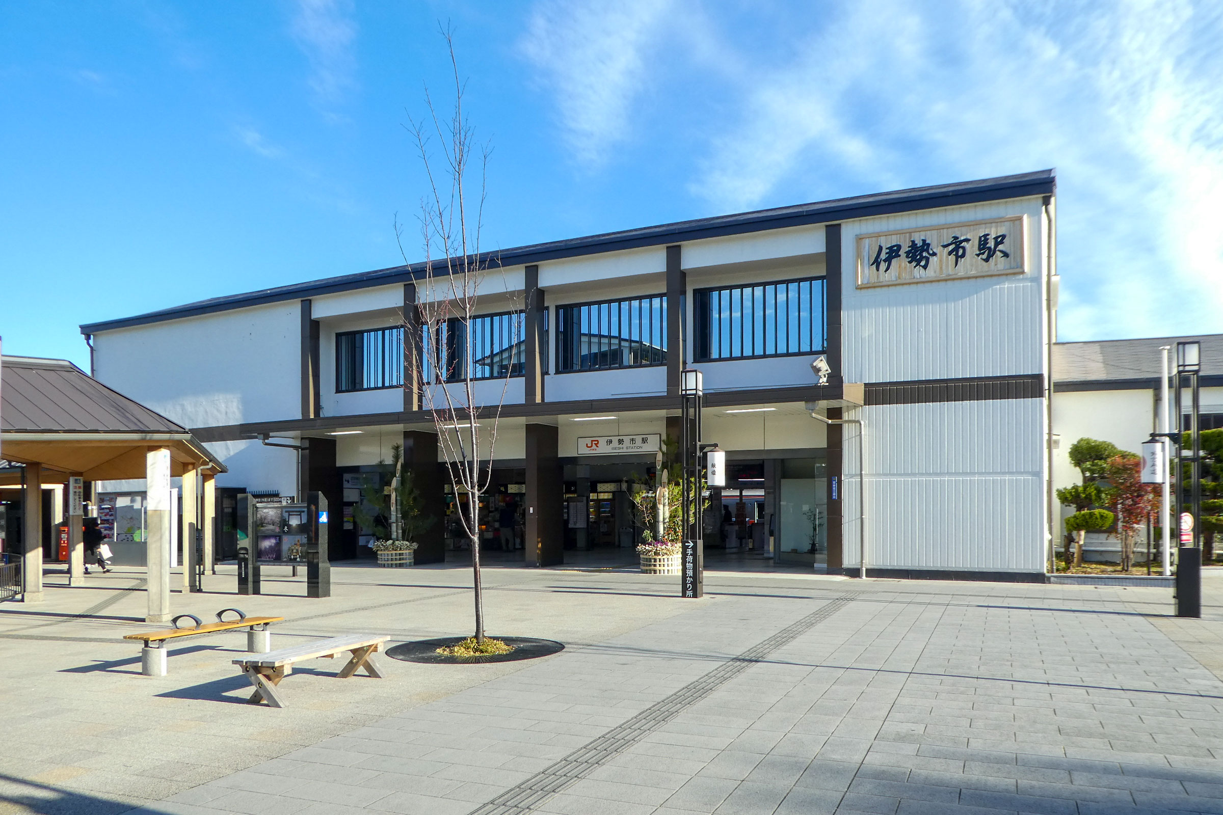 Iseshi Station in Mie Prefecture, Japan